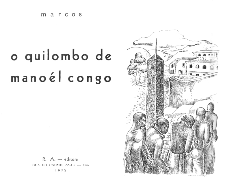 Covering of the book written by Brazilian politician, journalist and writer Carlos Lacerda under the pseudonym Marcos about the revolt of slaves led by Manuel Congo.